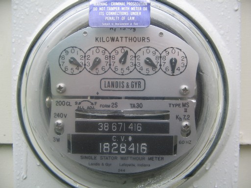 Household electric meter, USA